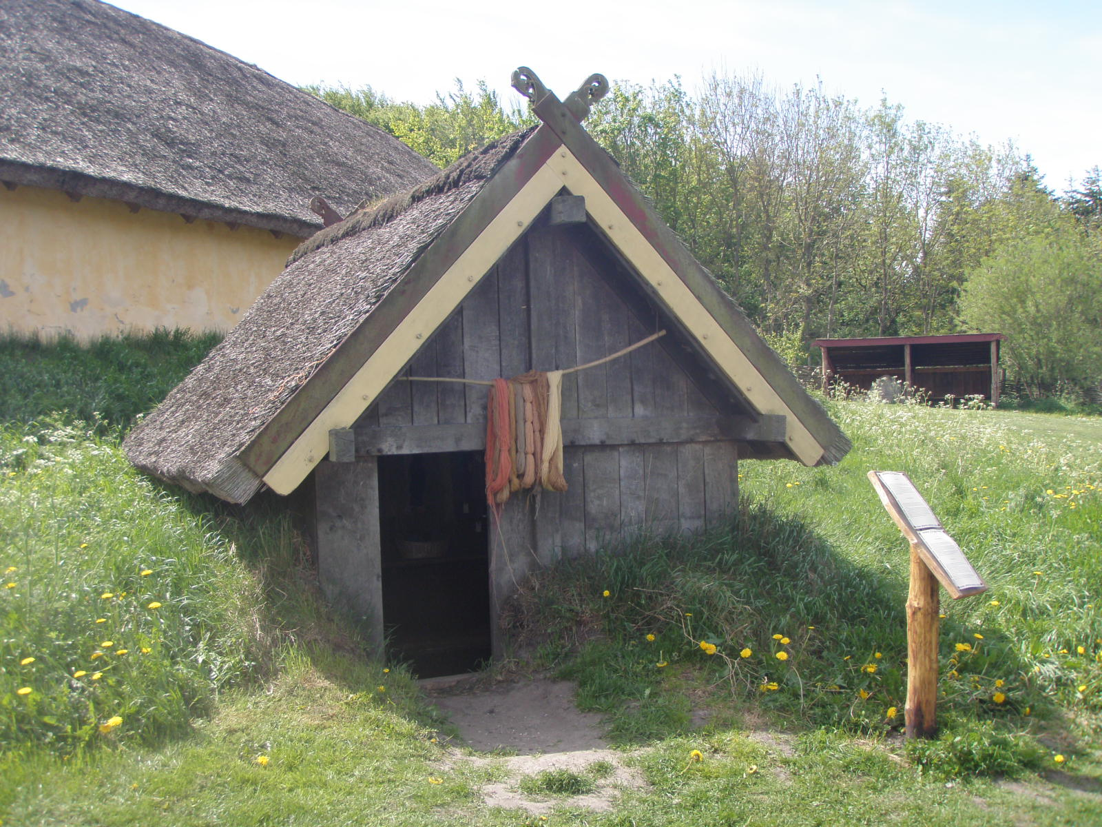 Pit-house (grophus in Swedish) were common in the Scandinavian settlements during the Late Iron Age and especially during the Viking era. These were used mostly for crafts of all kinds, such as metal, ceramics and textiles.